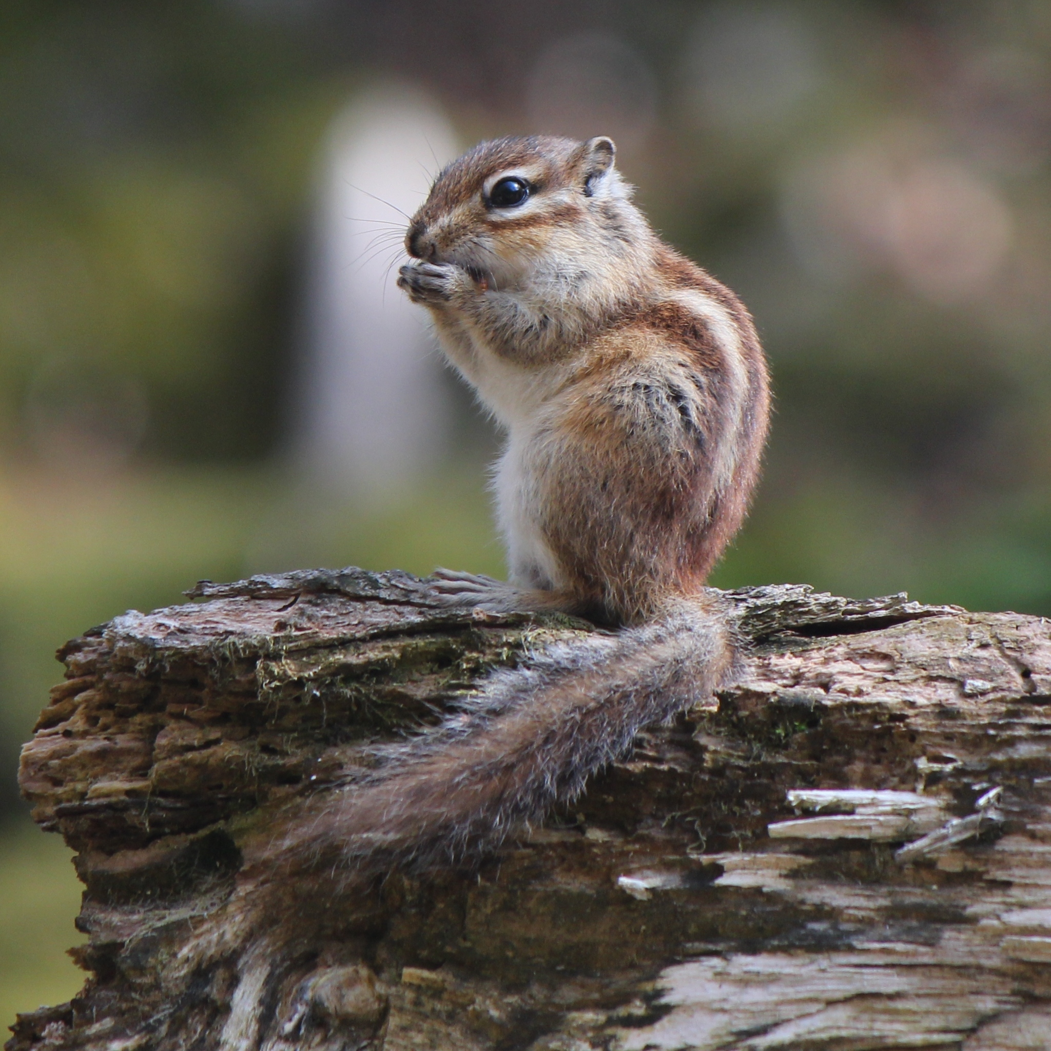 Tamias sibiricus barberi, eating in Mount Oike, Higashiomi, Shiga prefecture, Japan.